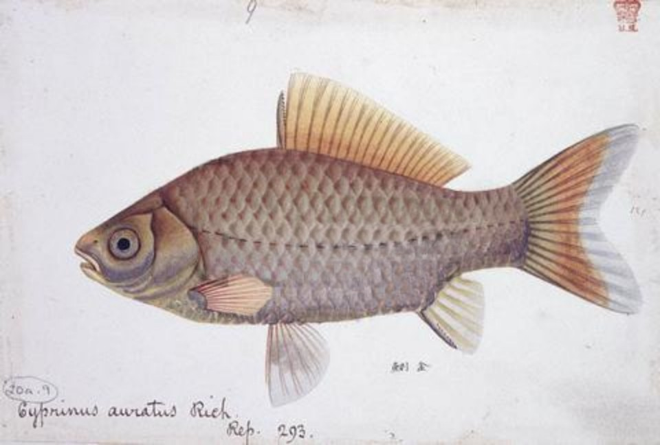 "Cyprinus auratus", goldfish, Plate 20a. watercolour by Thomas Hardwicke (1755-1835) from his "Drawings of soft-rayed fishes of India and China"